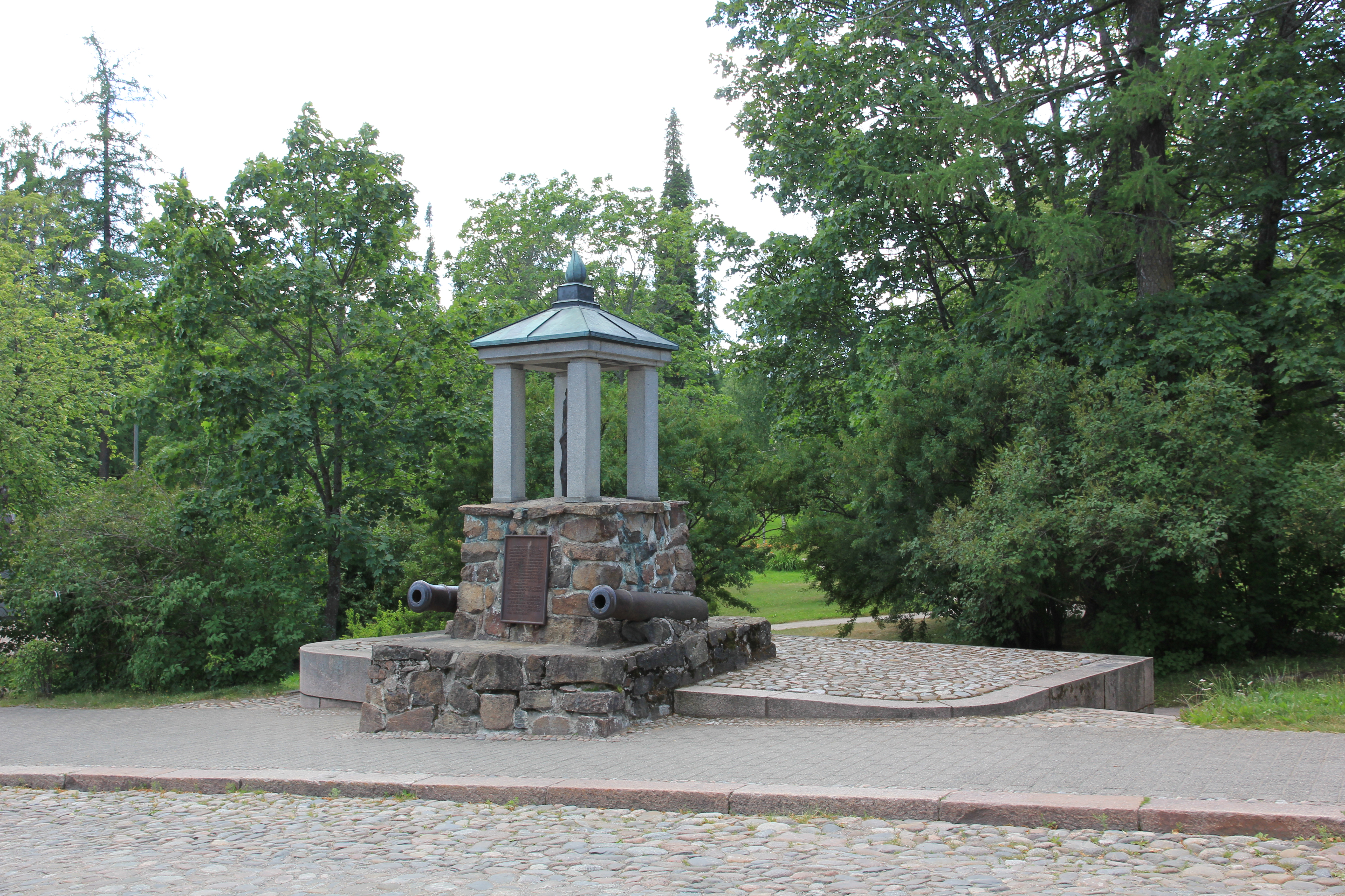 Memorial of the battle of Lappeenranta (28.8.1741) in Lappeenranta. A wooden mile marker (replica; the original is in a museum) mounted on a stone base in 1818. Canopy added in 1924, memorial tablets from 1949.